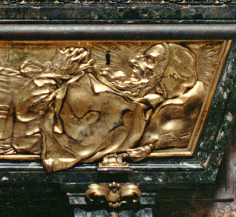 Head of Pope Pius V from his tomb in Santa Maria Maggiore, Rome. Sculptor: Pierre Le Gros the Younger.